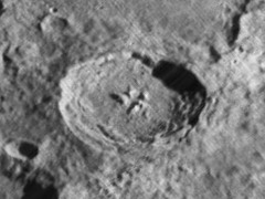 Oblique view of Hayn, on the moon.